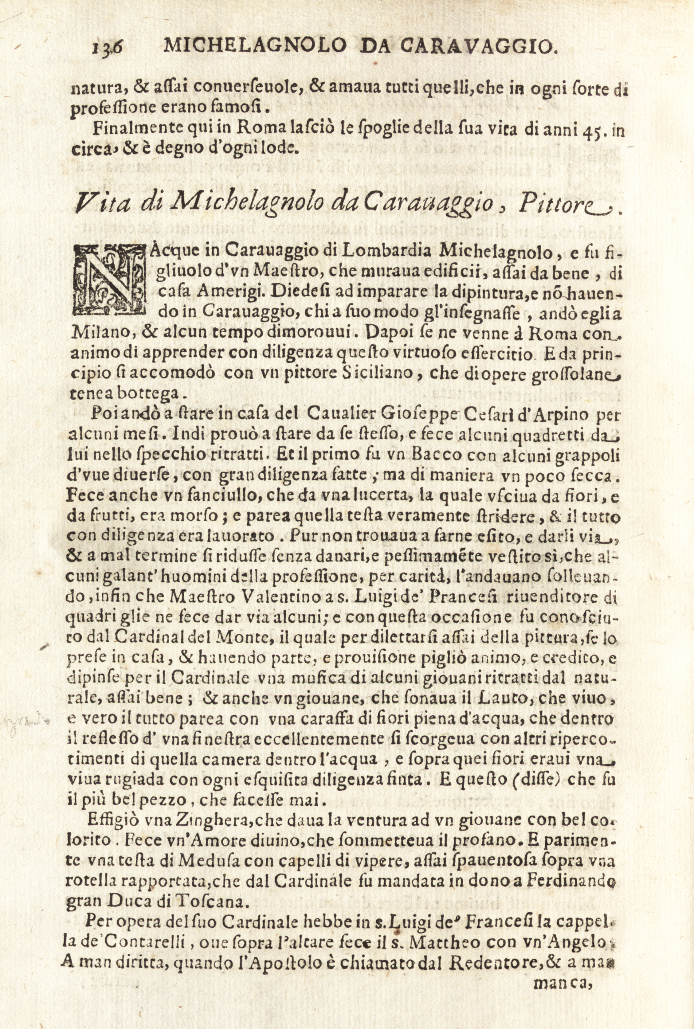 The Life of Michelagnolo da Caravaggio by Giovanni Baglione, page from Le vite de' pittori, scultori et architetti. Dal pontificato di Gregorio XIII del 1572 in fino a'tempi di Papa Urbano Ottavo nel 1642. Rome, Stamperia d'Andrea Fei, 1642.